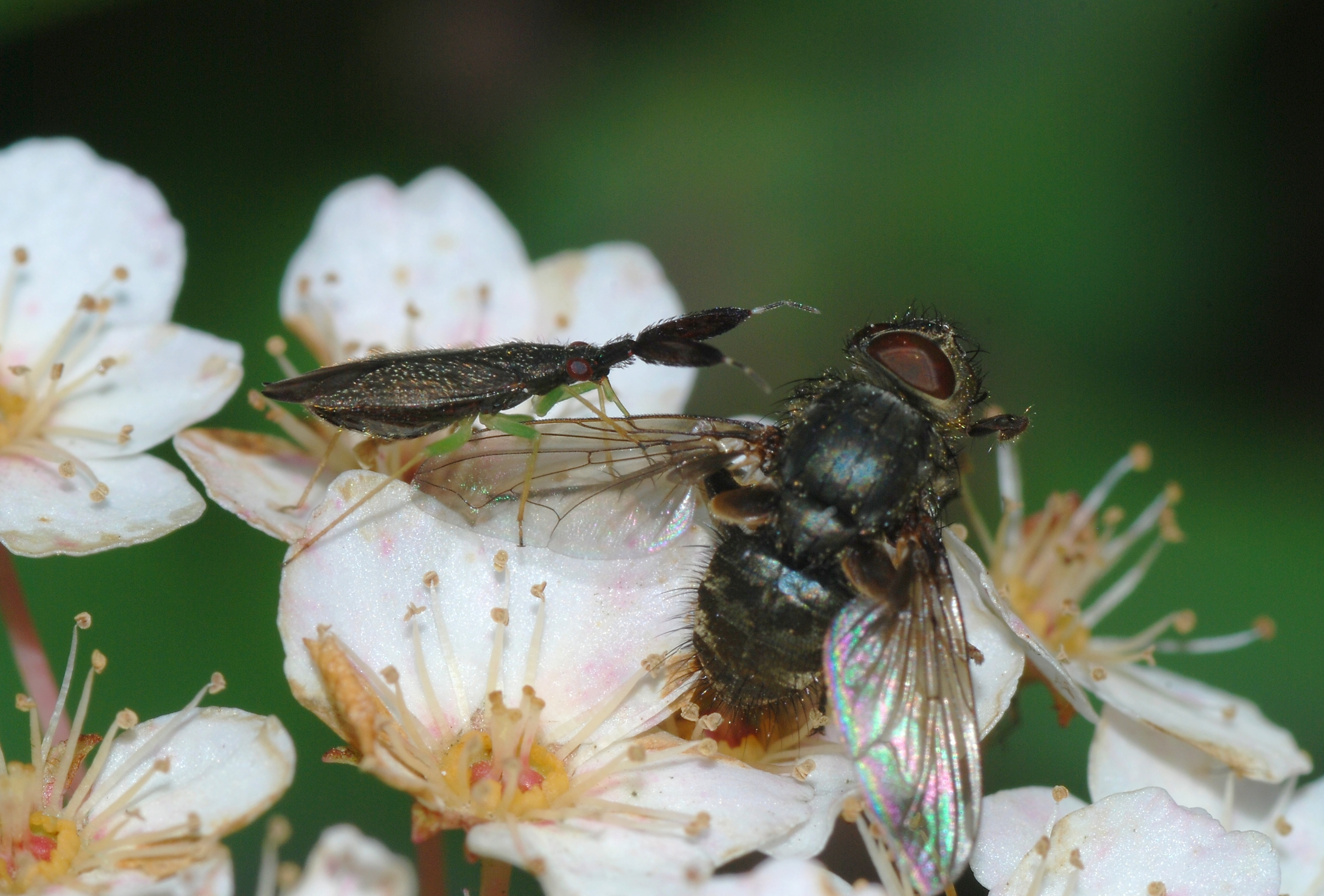 Heterotoma planicornis (Miridae) feeding on a dead fly